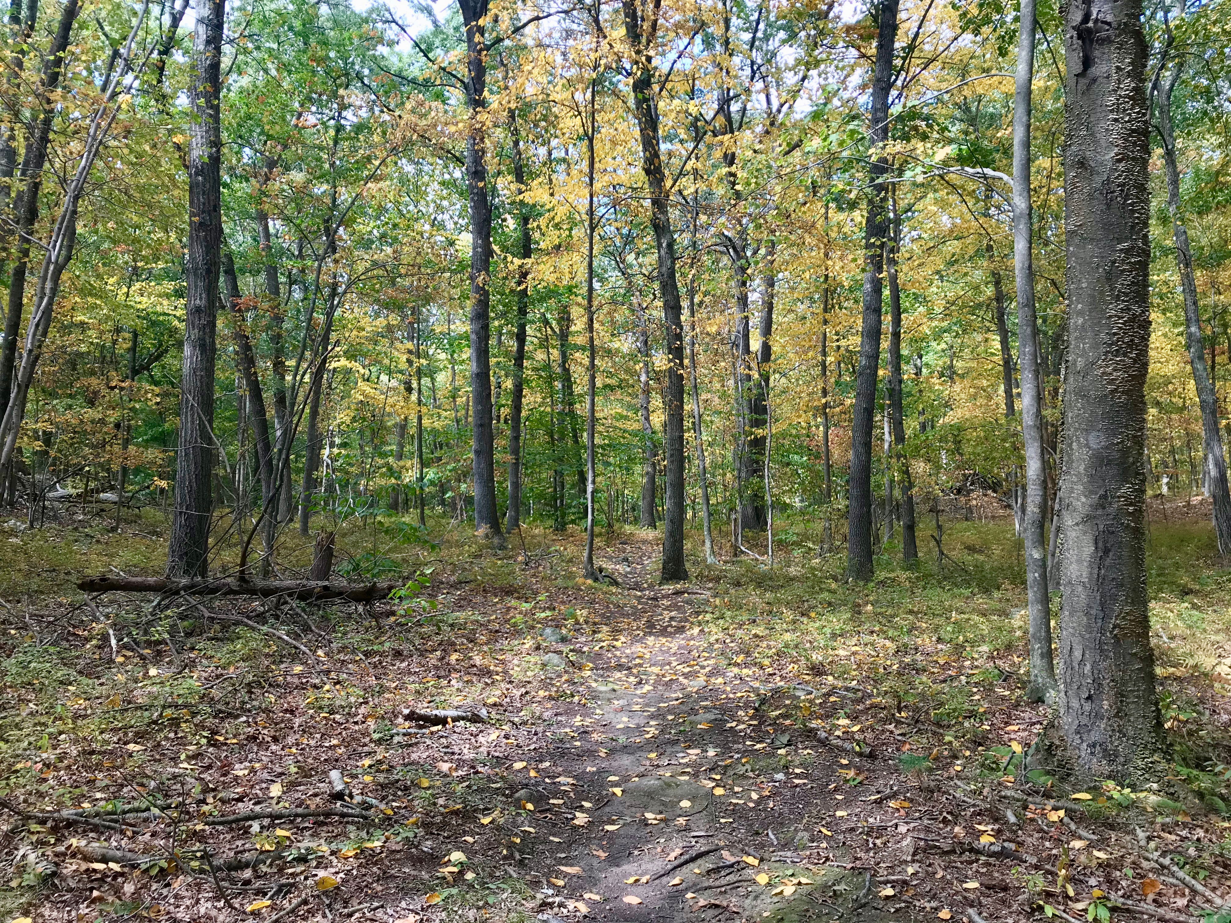 Naugatuck State Forest Quillinan Block's White Trail Singletrack Near former NIKE site (location between the Moulthrap and Twomile brooks and the end of Osborne Lane in Ansonia, Connecticut.